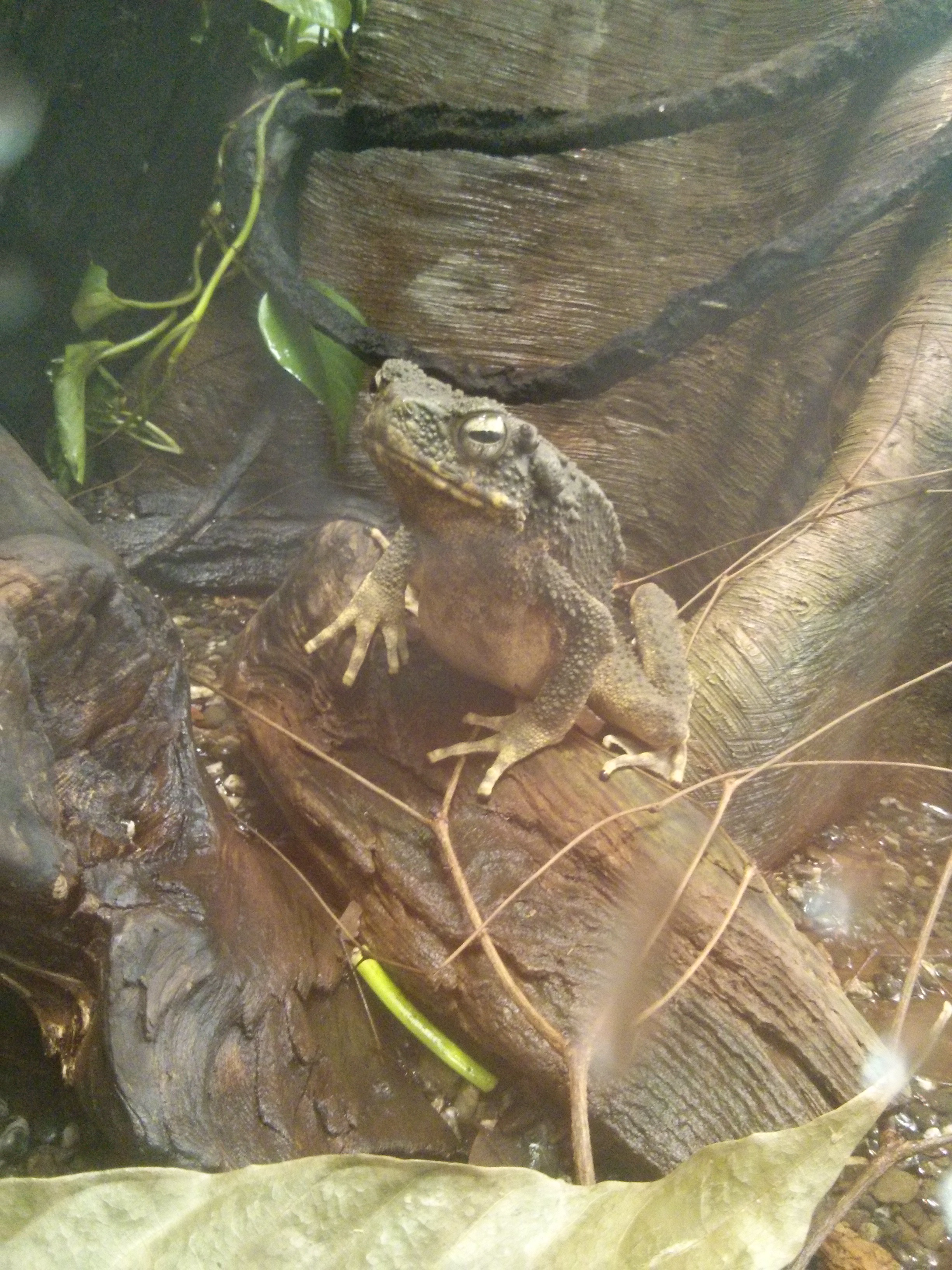 Borneo River toad in captivity